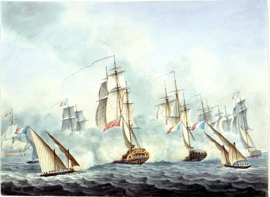 The Sirius, Capt Prowse - engaging a French Squadron off the mouth of the Tiber April 17 1800